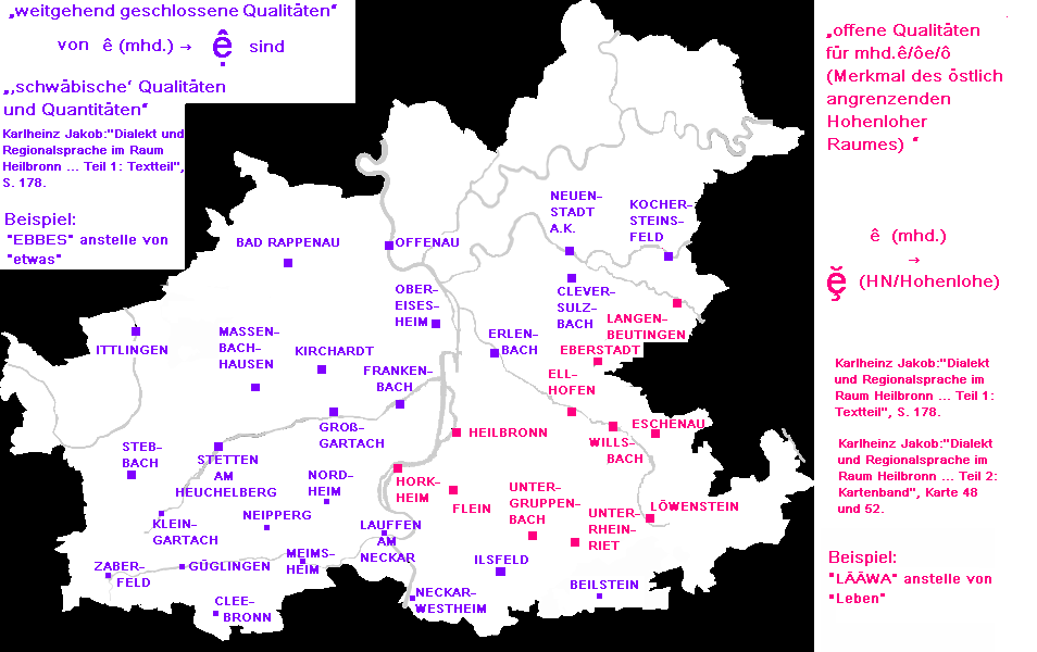 Karlheinz Jakob, Dialekt und Regionalsprache im Raum Heilbronn. Teil 2, Kartenband. Karte 48 [Orte mit ostfränkischer Prägung - ḝ (HN u. Hohenlohe) als ostfränkische, offene Qualität für ê (mittelhochdeutsch)], Marburg 1985.PNG